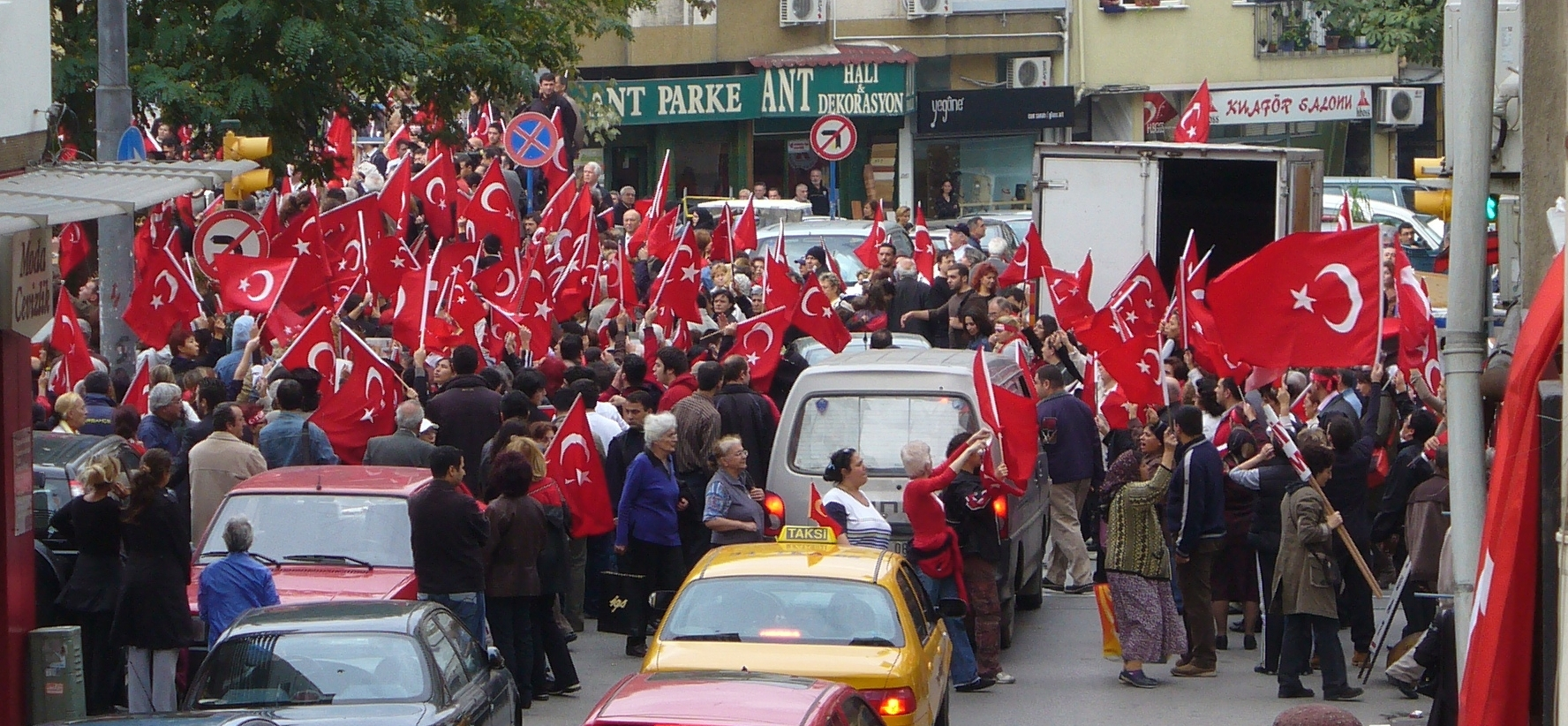 Scene from an anti-PKK demonstration in Kadıköy, İstanbul, on 22 October 2007.